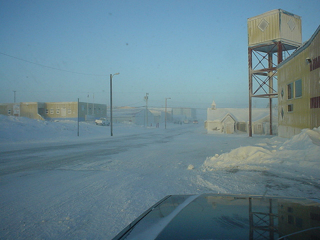 Rankin Inlet eskimo